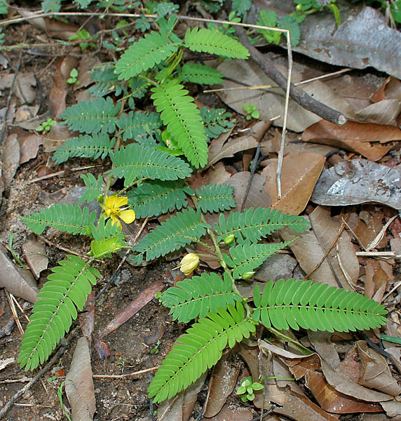 Description corrected to Chamaecrista nictitans in Talakona forest, in Chittoor District of Andhra Pradesh, India.